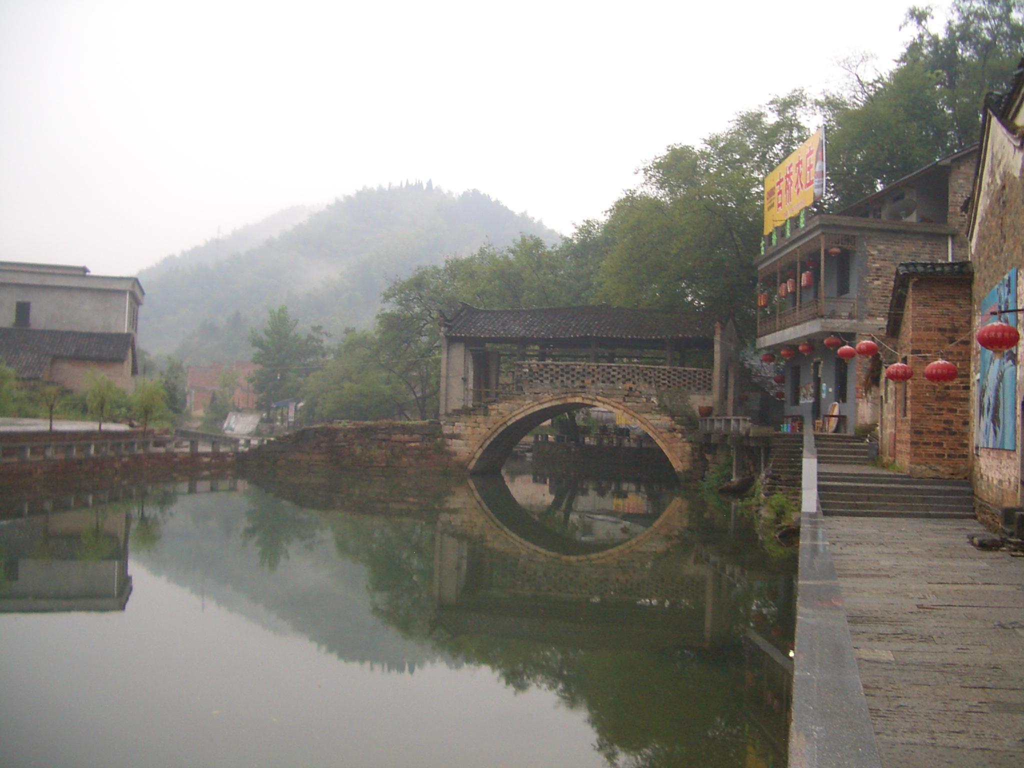 Liu Jia Qiao (刘家桥, "Liu Family's Bridge" - or 刘家硚, how they spell it there, with the "stone" radical), a village on the Provincial Road S209 between Xianning and Tangshan, still within XIan'an Qu. Its stone buildings lined along a river section (or just a lake maybe?) have a number of restaurants etc, and are decorated for the enjoyment of travellers